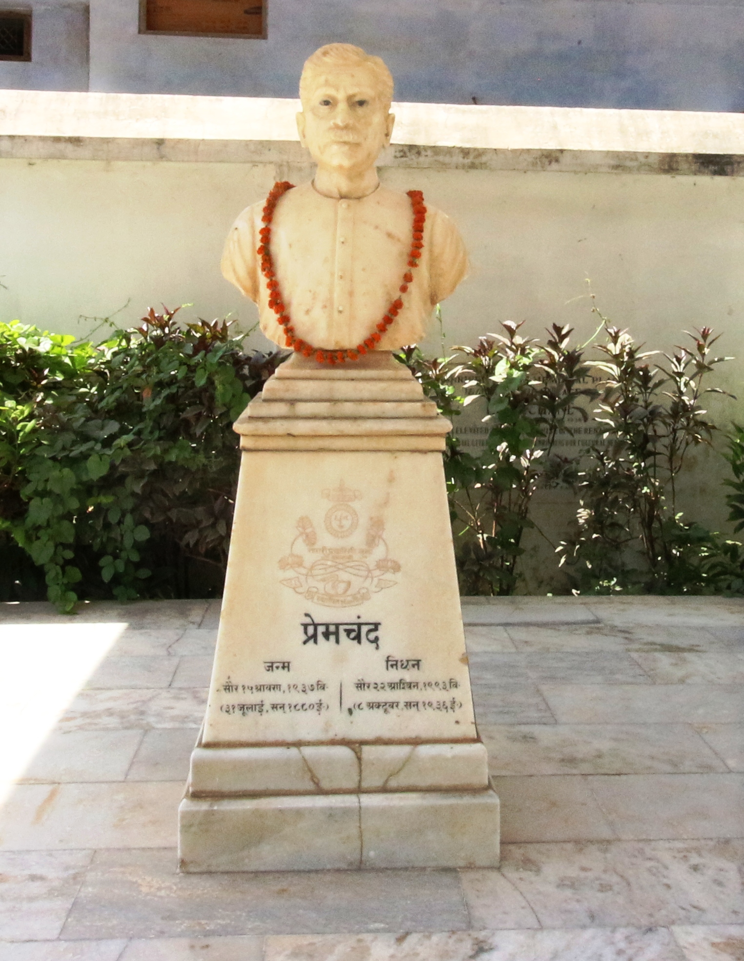 This picture is taken at Munshi Premchand Memorial, Lamhi, Varanasi